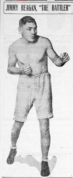 Source: BoxRec, URL Source Path: Description: Black and White low resolution photo of America boxer Jimmy Reagan, 1909 Bantamweight Champion in white boxing trunks, bare chested boxing pose without gloves, shot in front Public Domain Rationale: This photo of was published in American newspapers prior to 1923, making it by definition public domain in the United States, however I do not recommend uploading to Wiki Commons. Direct The publication is the Ogden Standard, December 24, 1917, pg. 3, "Jimmy Reagan Battler."